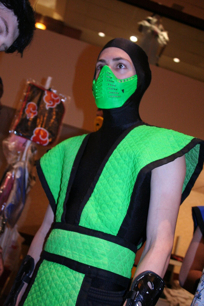 This photo was taken on January 5, 2008 using a Canon EOS Digital Rebel XT.